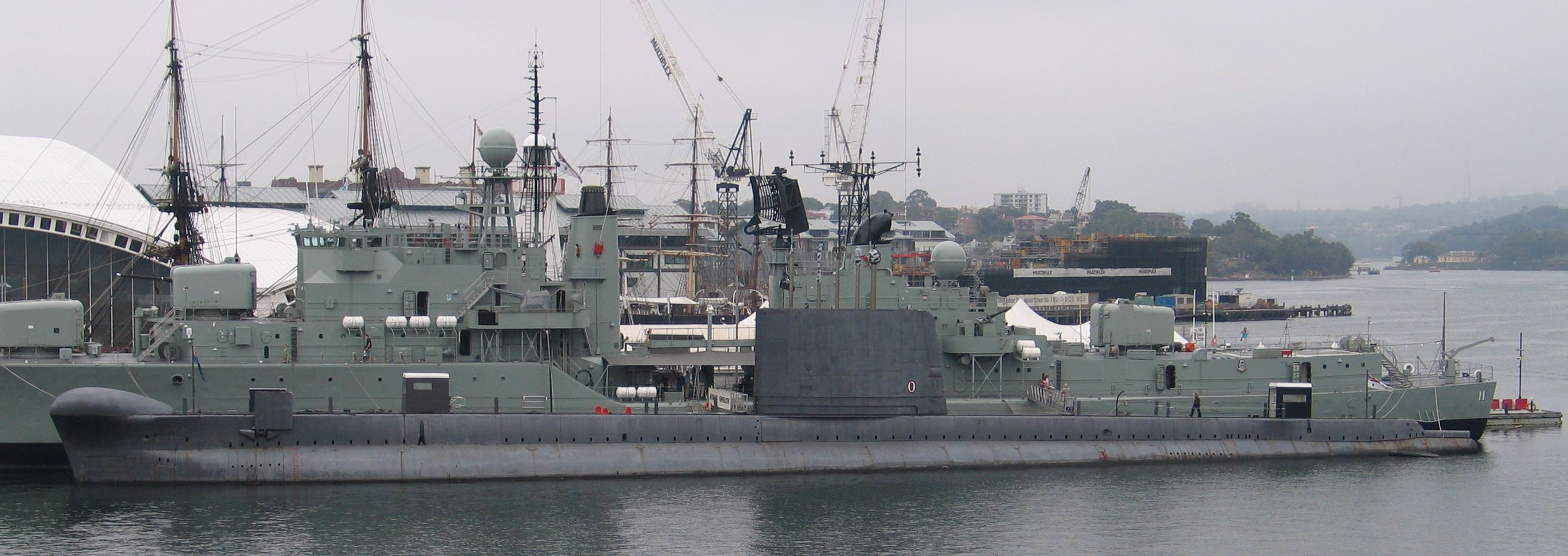 HMAS Onslow (S60) Oberon class submarine at the Australian National Mairitme Museum, Sydney, NSW, Australia.